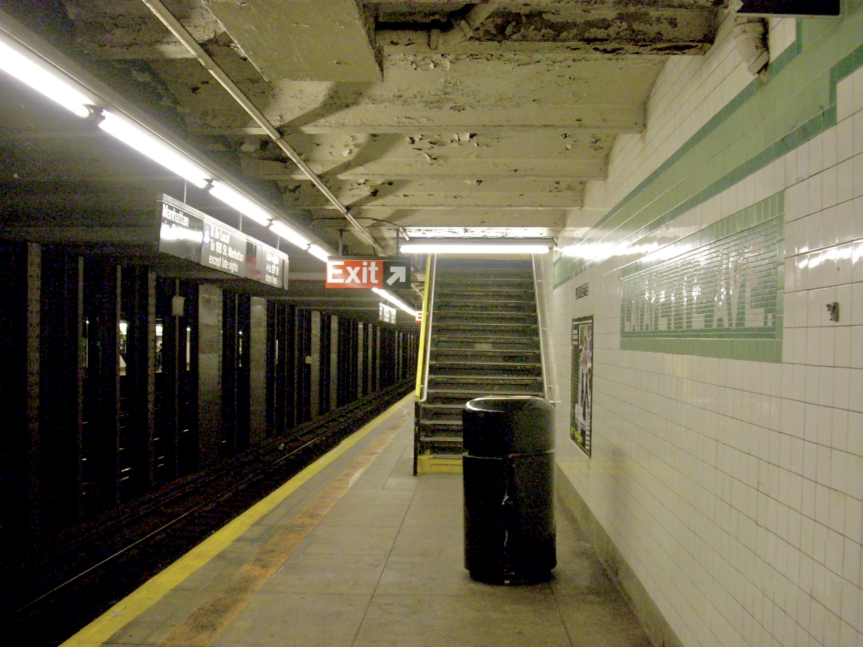 Lafayette Avenue uptown platform